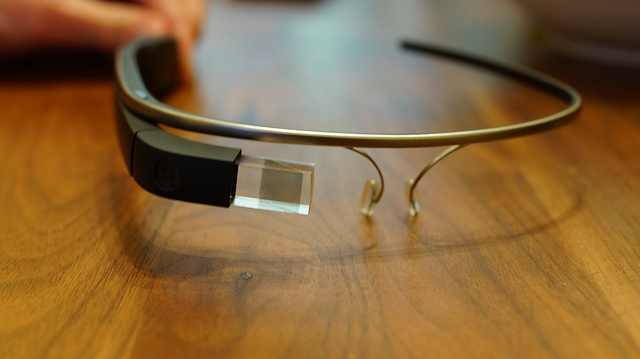 Google's augmented reality head mounted display as glass form